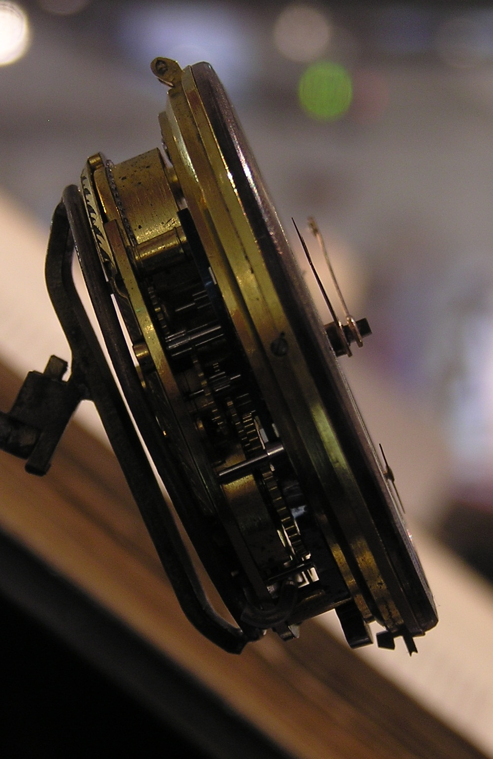 left side view a chronometer used on the HMS Beagle on its world tour. This is one of two remaining chronometers, and this one is labelled V. It was manufactured by Hugh Pennington. They were used from 1831 to 1836. An instrument maker called George James Stebbing compared the time at midday, and wound them at 9am in the morning. The chronometer was stored in a special cabin on the ship. The clock is on display in the Australian journeys gallery at the National Museum of Australia